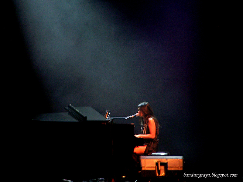 Anggun performing with a piano during her 2006 concert in Bandung, Indonesia.